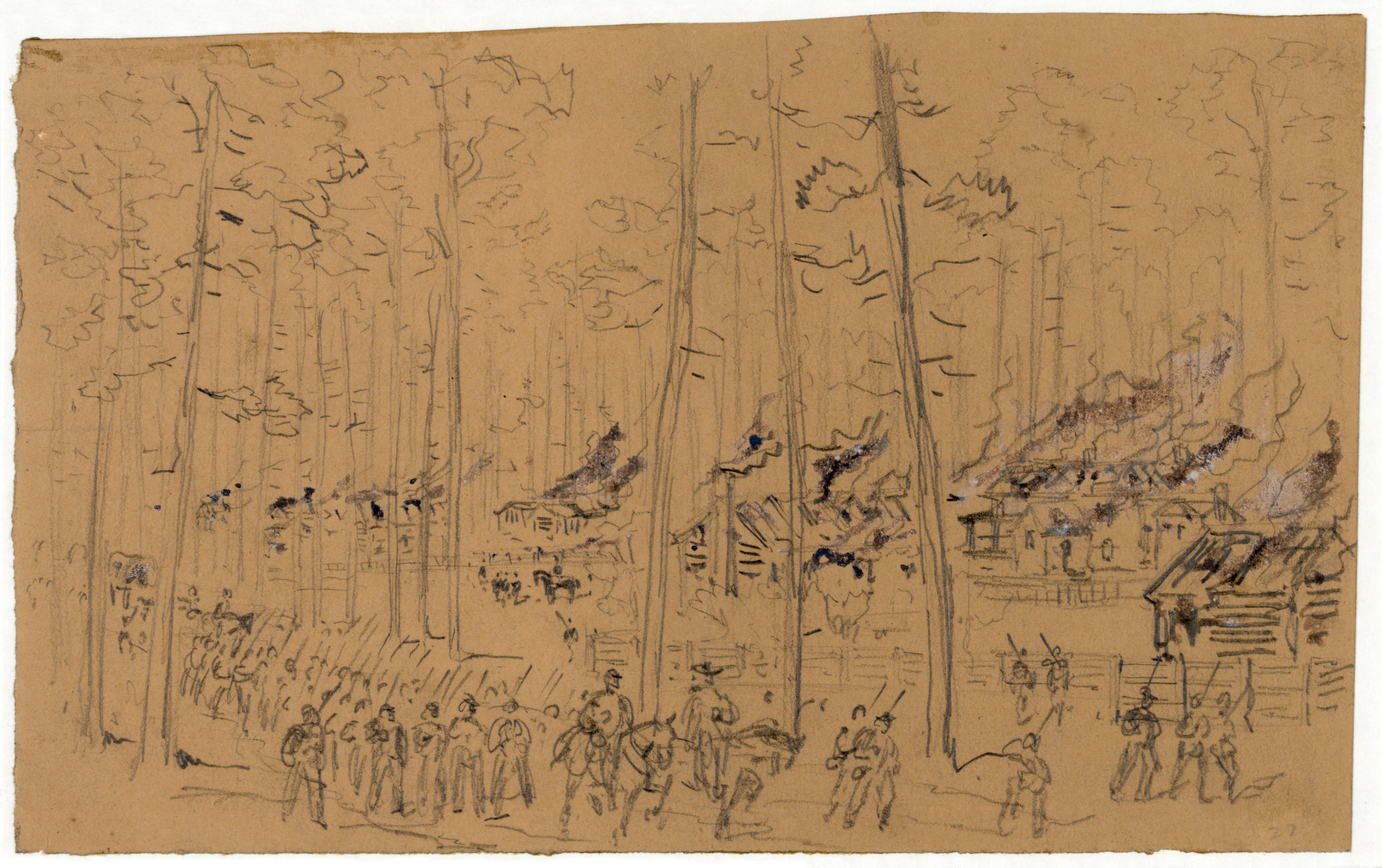 "Sherman's march through South Carolina - Burning of McPhersonville". 1 drawing on tan paper : pencil, Chinese white, and black ink wash ; 15.5 x 24.9 cm. (sheet). The engraving based on it was published in: Harper's Weekly, March 4, 1865, p. 136.